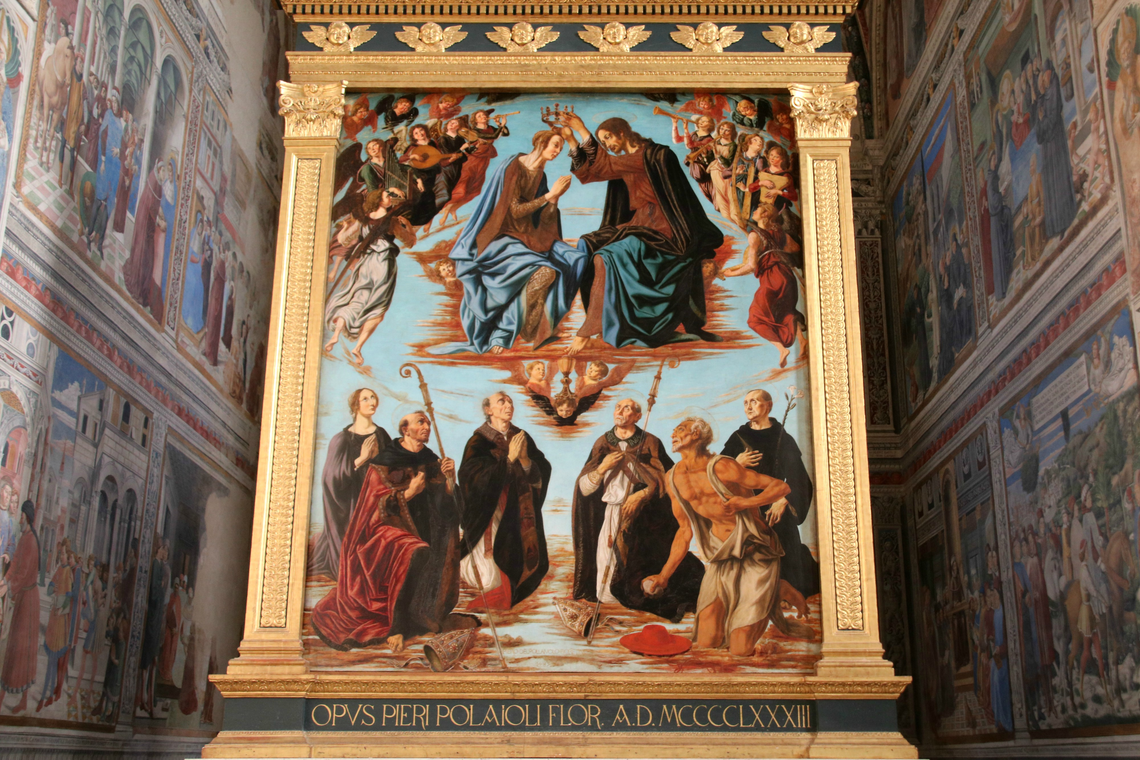 Coronation of the Virgin with Saints Nicholas, Augustine, Gimignano, Niccolò da Tolentino and Jeromelabel QS:Len,"Coronation of the Virgin with Saints Nicholas, Augustine, Gimignano, Niccolò da Tolentino and Jerome"label QS:Lit,"Incoronazione di Maria e i Ss. Nicola da Bari, Agostino, Gimignano, Niccolò da Tolentino e Girolamo"